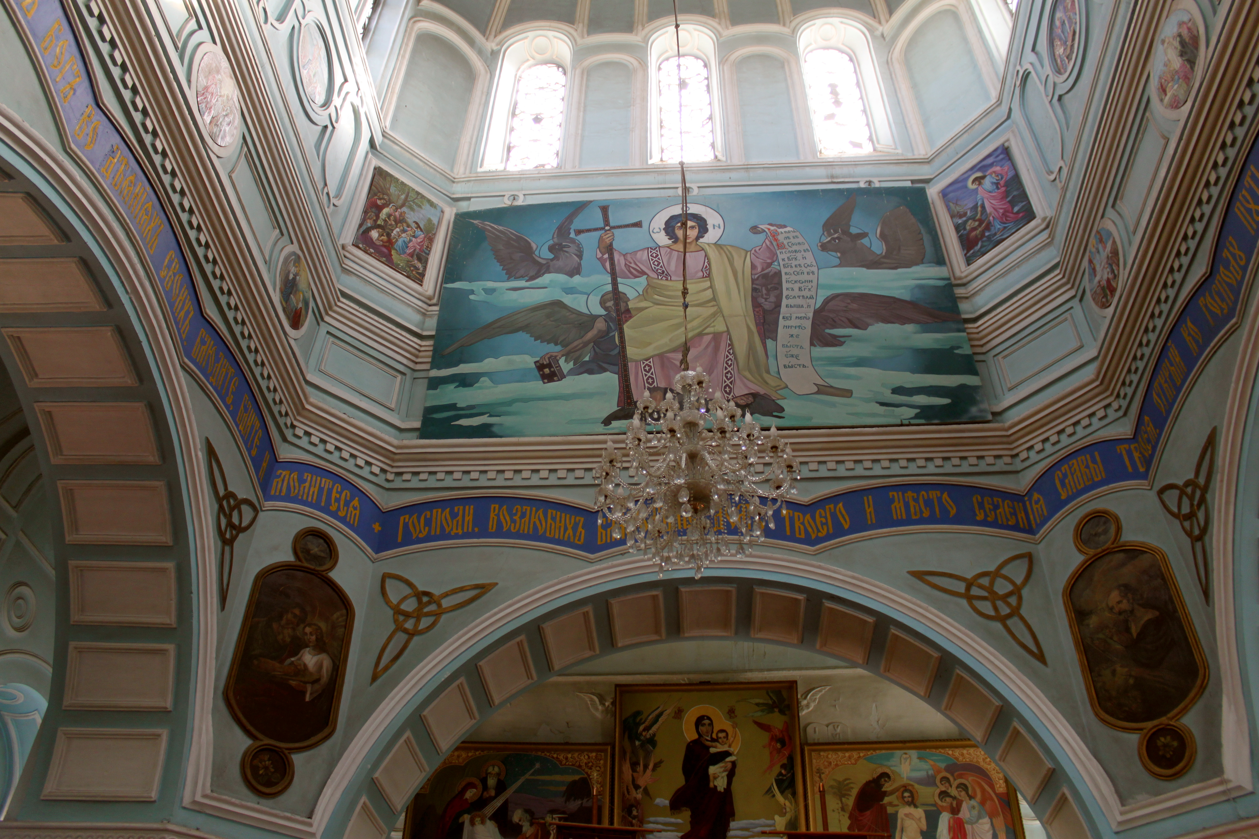 Alexander Nevsky church in Ganja